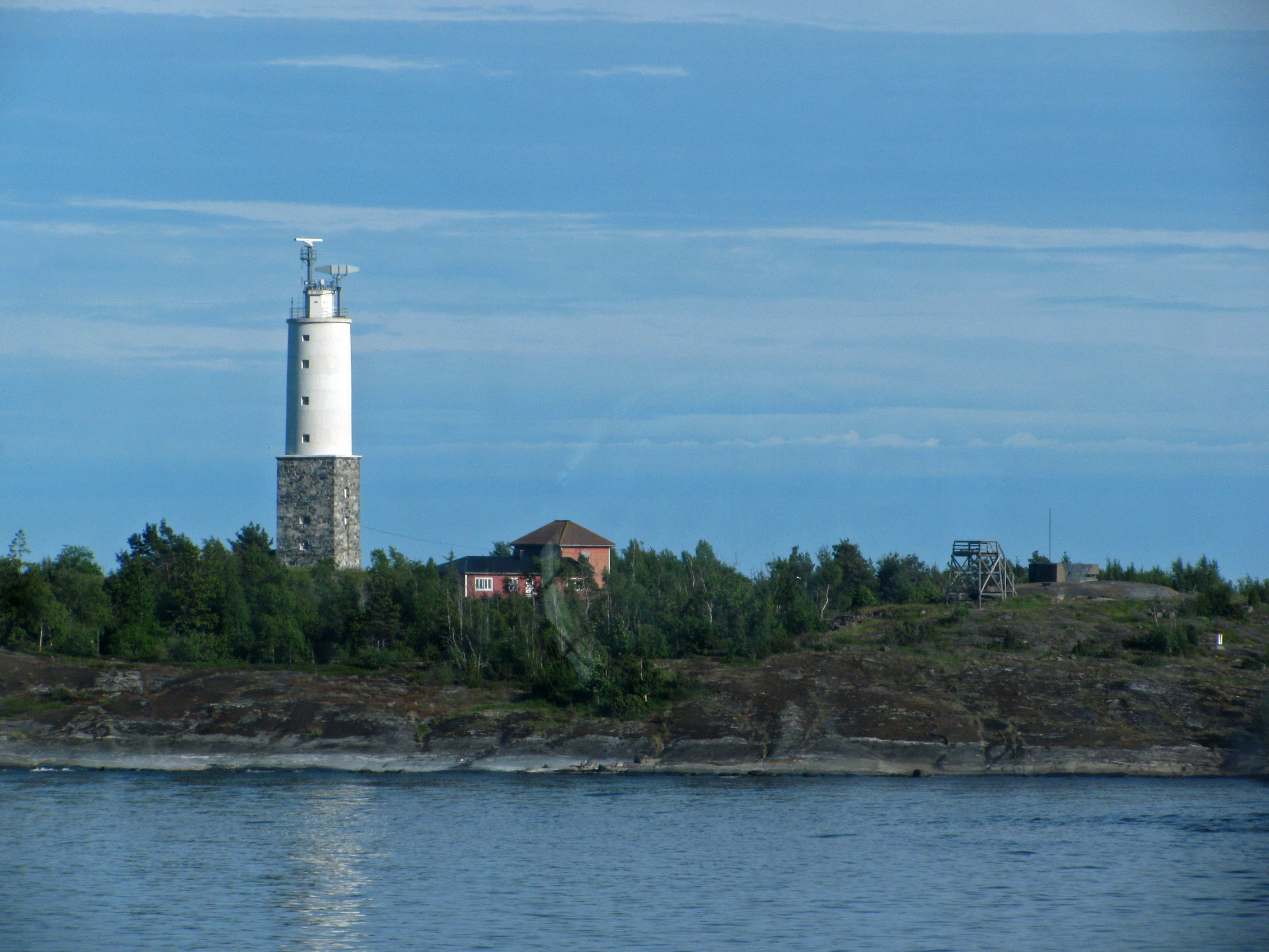 Rönnskär lighthouse in Finland